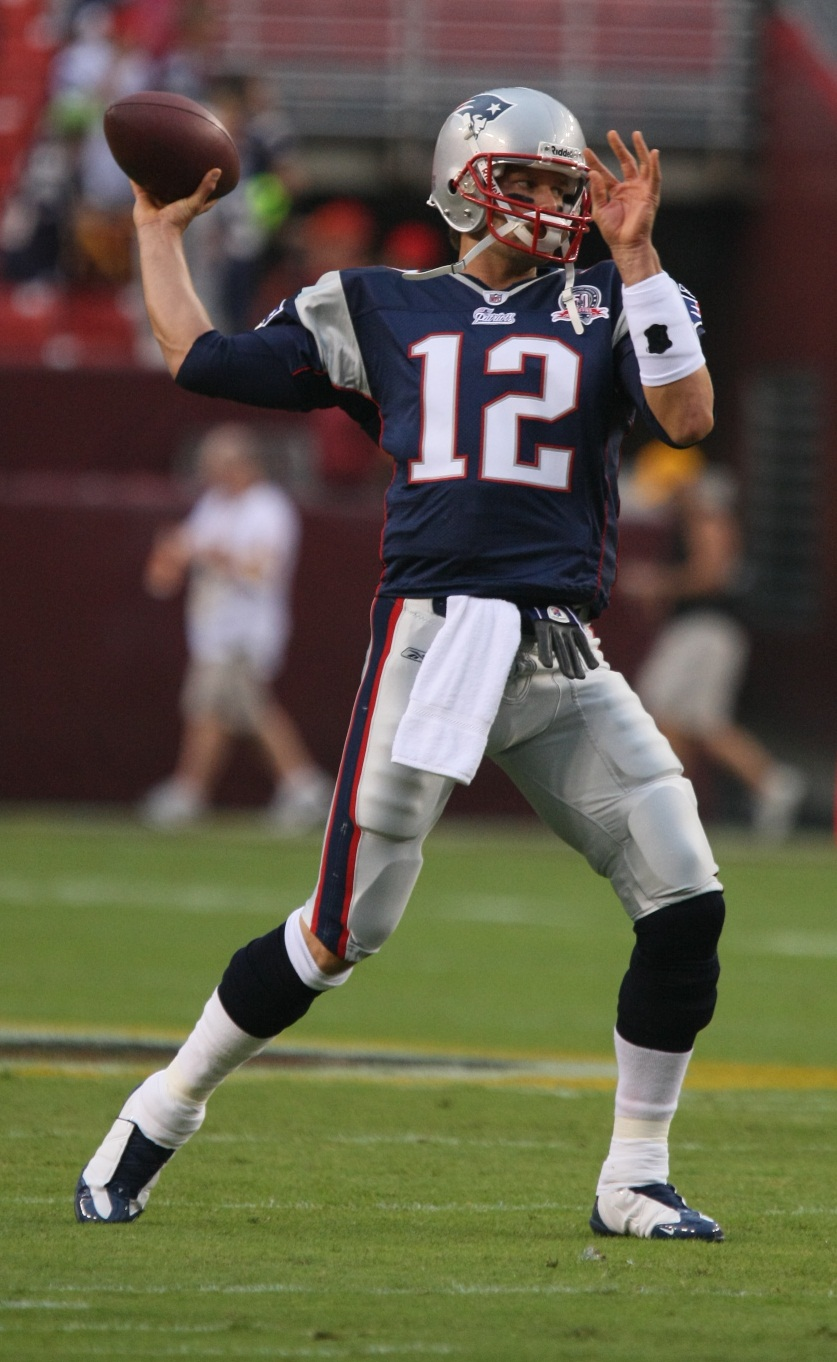 Tom Brady #12 of the New England Patriots during warmups in a preseason game against the Washington Redskins at FedExField on August 28, 2009 in Landover, Maryland.